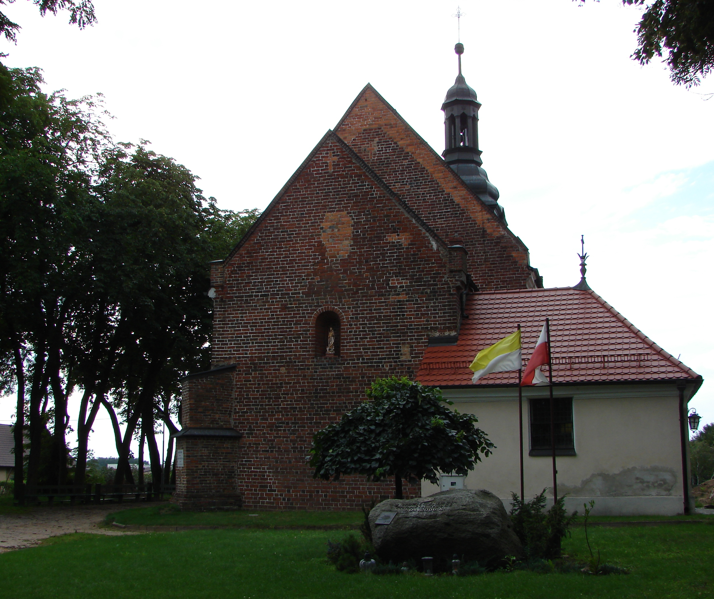 Tulce, Gmina Kleszczewo, Poland, church of Virgin Mary, XIII century